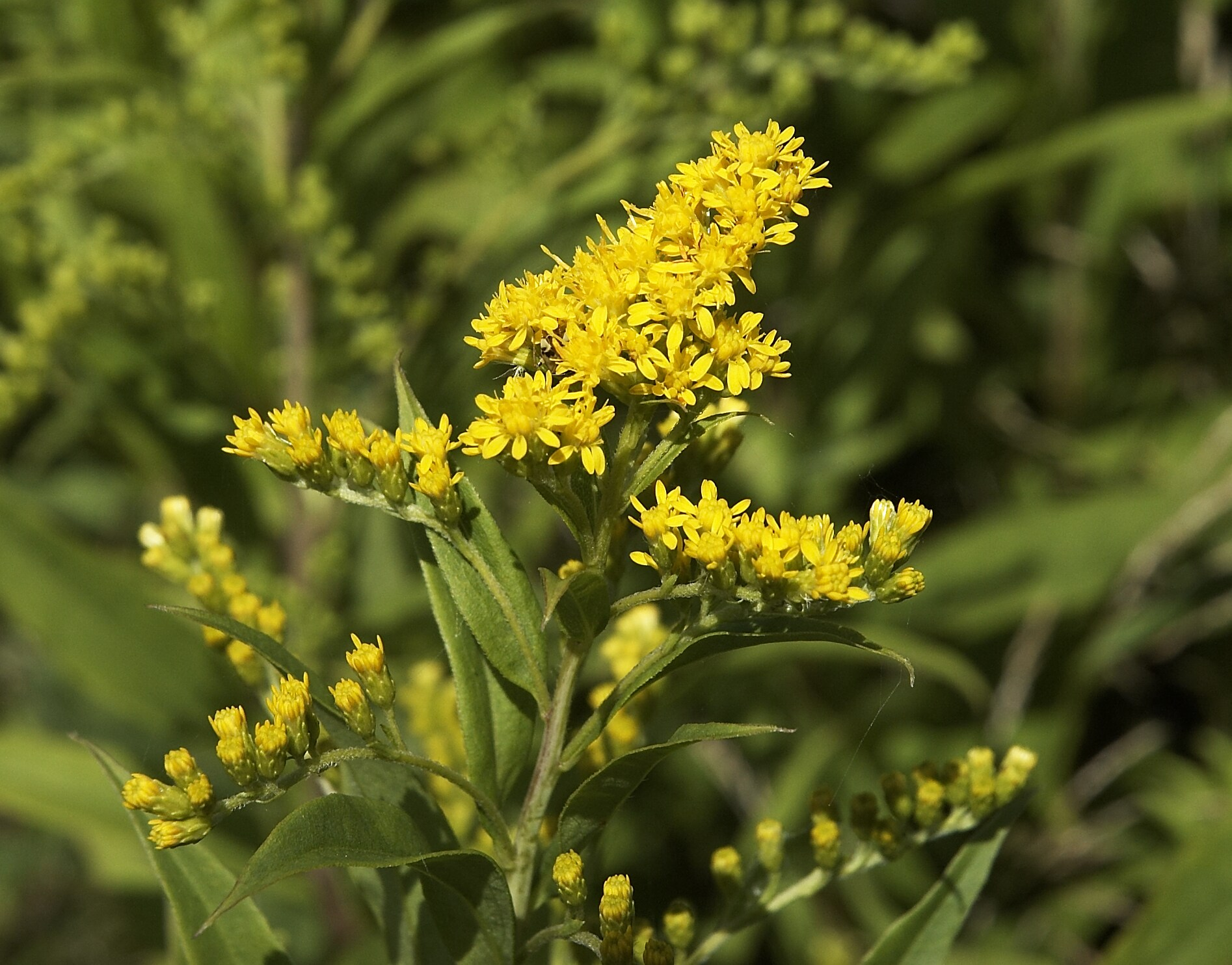 Solidago gigantea. This photo has been taken in Belgium. Other photos of the same plant